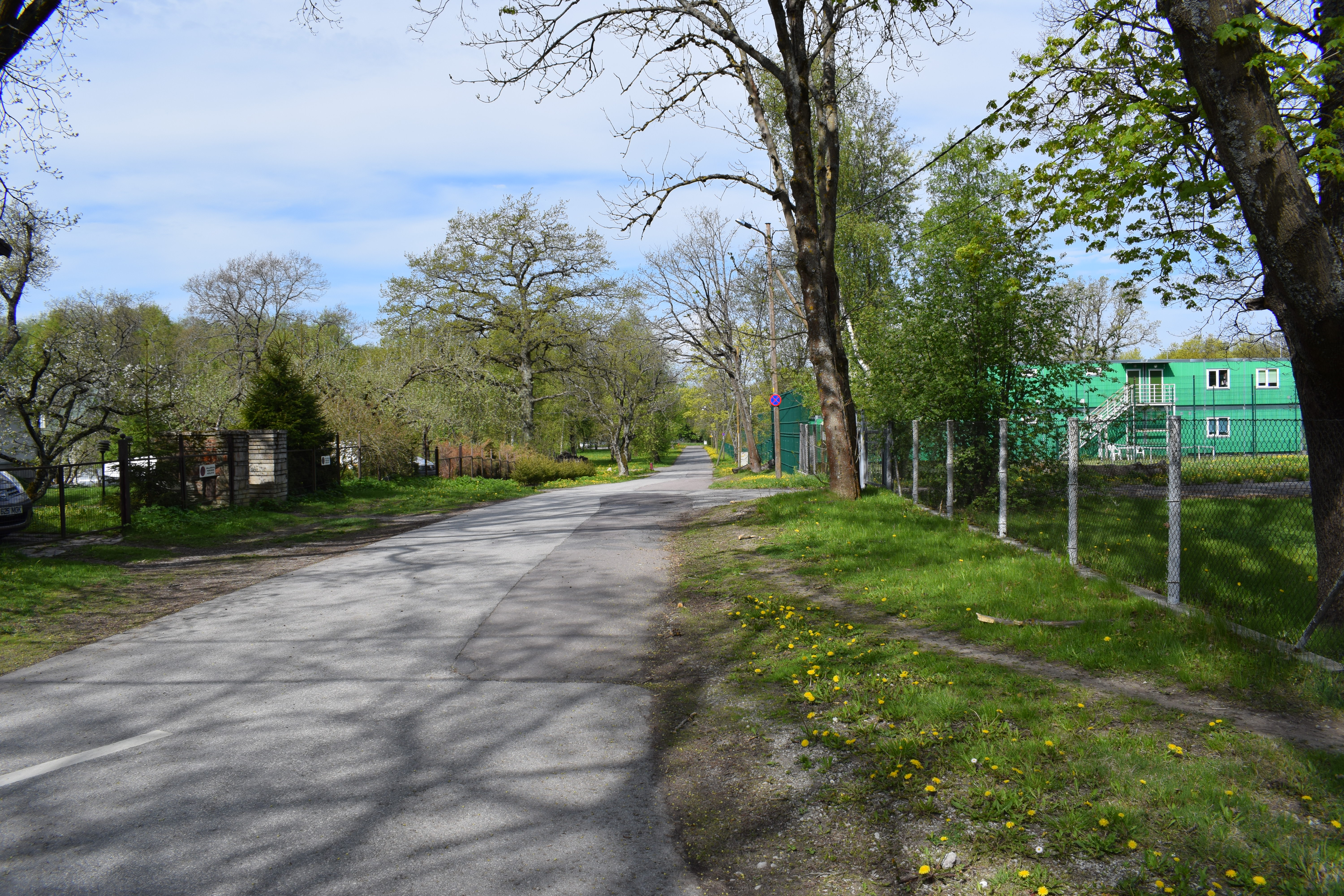 Lepa tänav